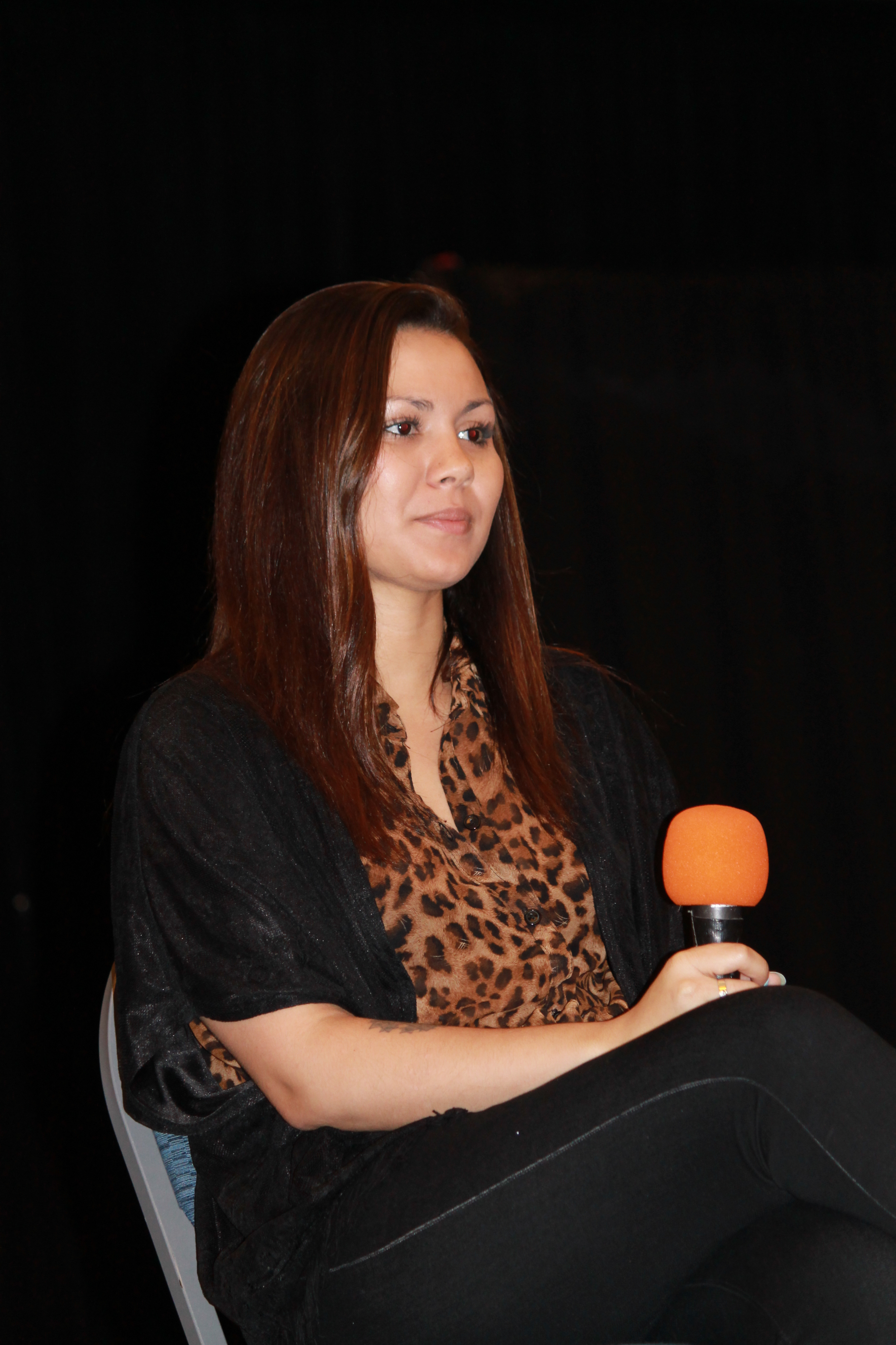 An image of actress Olivia Olson at a convention.